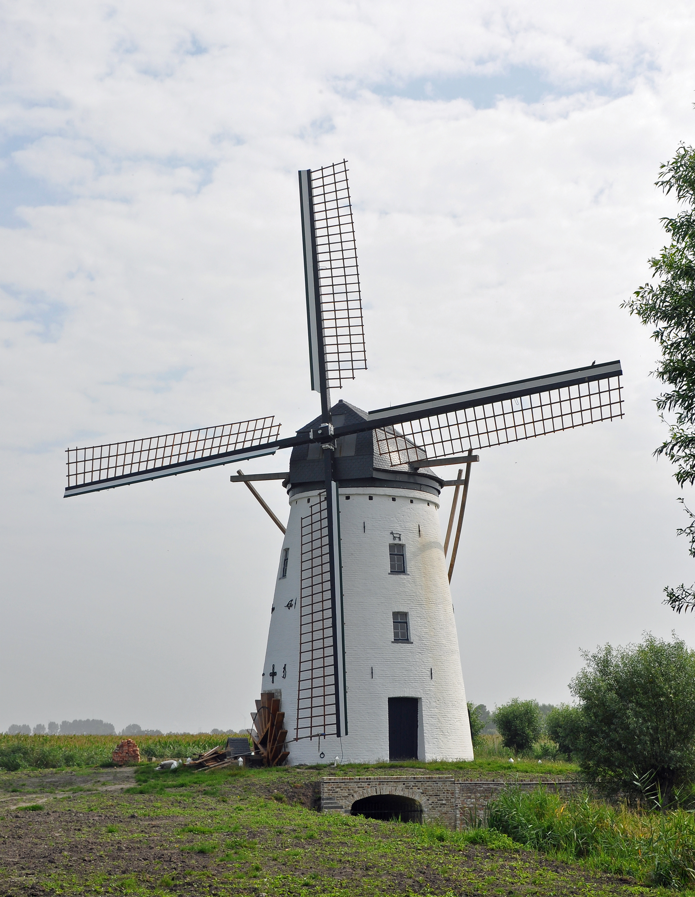 Meetkerke (Zuienkerke, province of West Flanders, Belgium): Poldermolen windmill